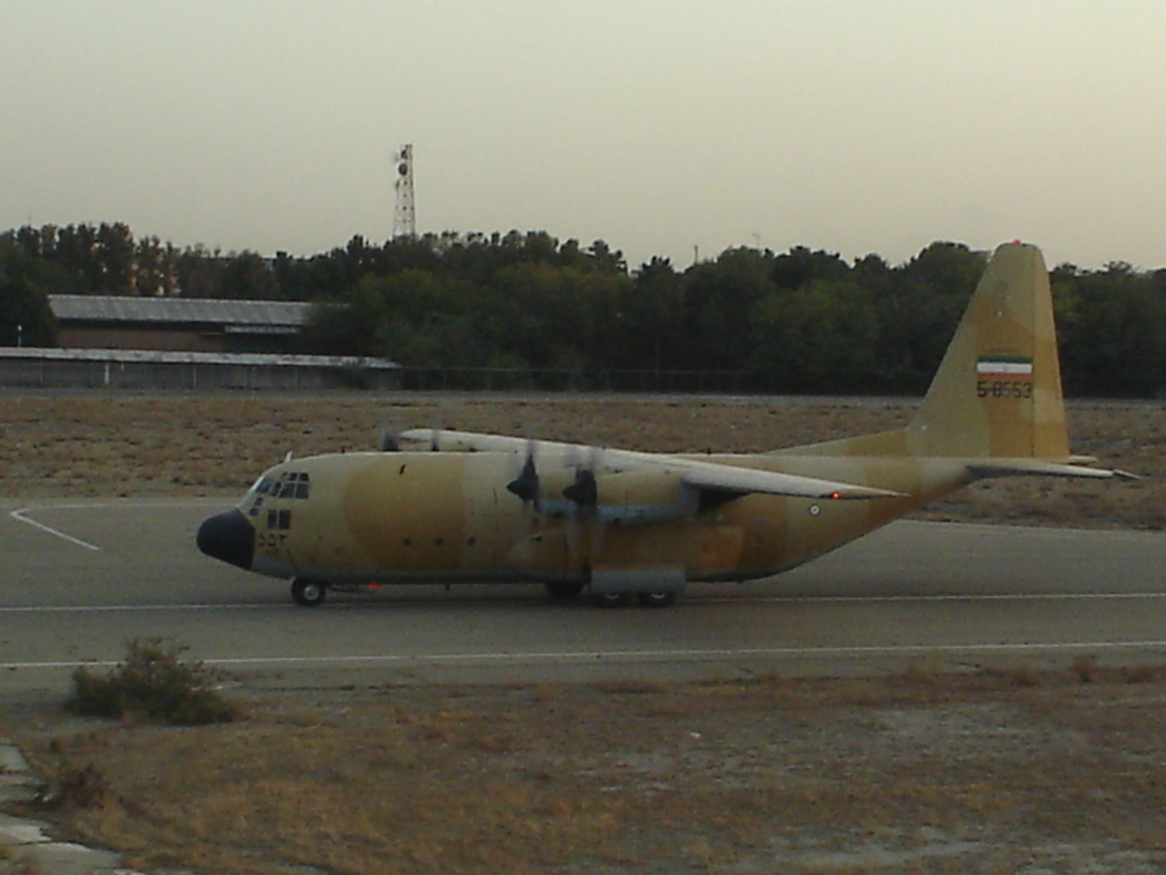 A C-130 Hercules of the Islamic Republic of Iran Air Force